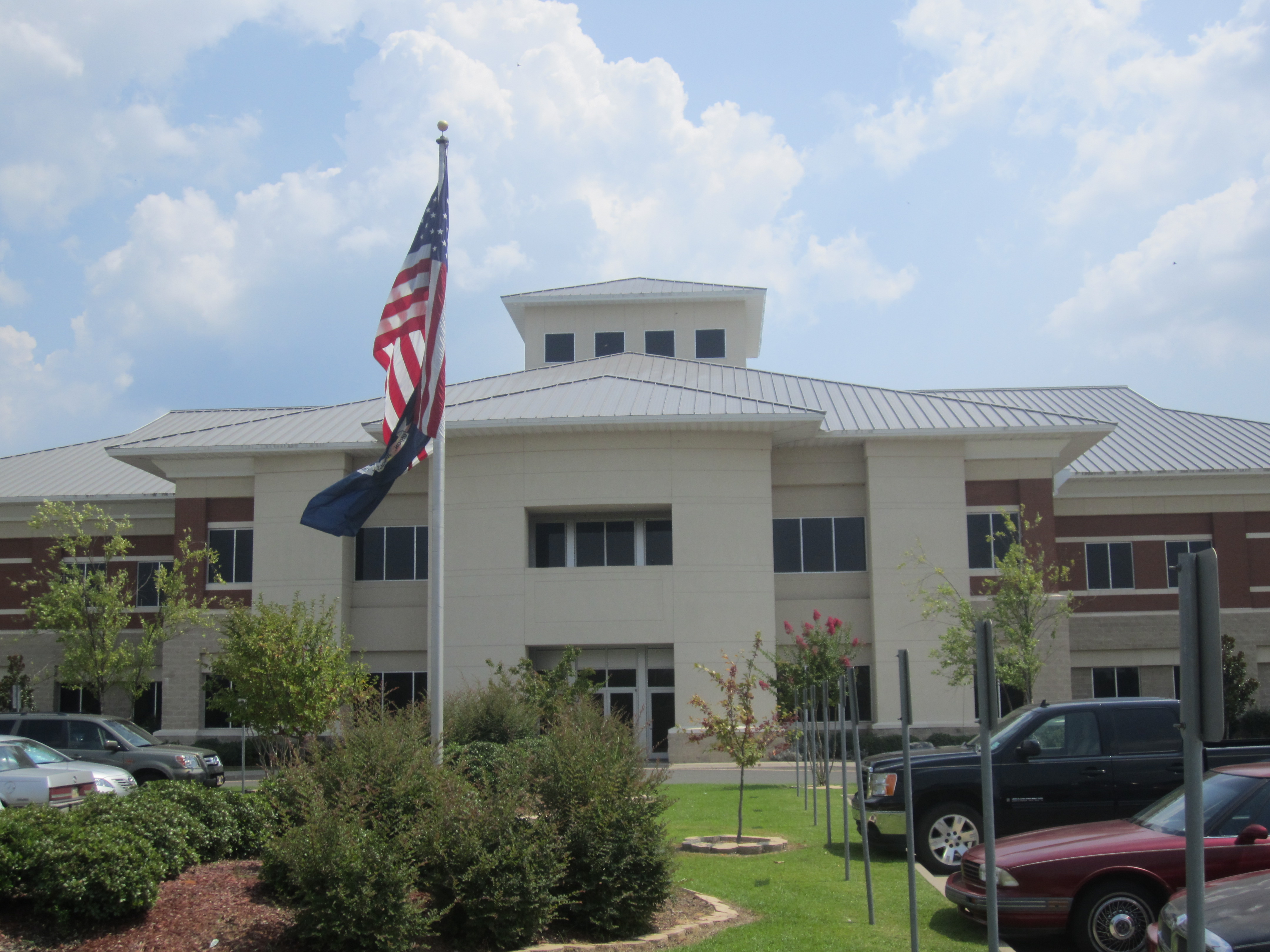 I took photo in Bossier City, LA, with Canon camera.